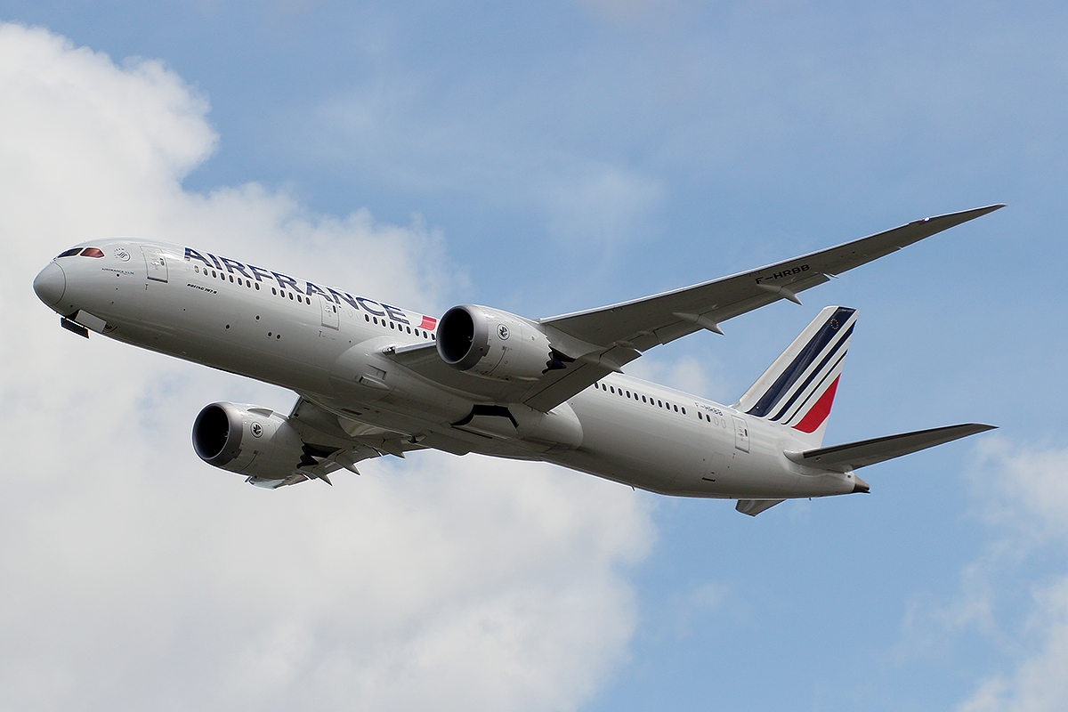 F-HRBB Boeing B787-9 @ Heathrow 04/06/2017